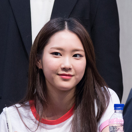 Oh My Girl Jiho at Daejeon fansign on May 1, 2016